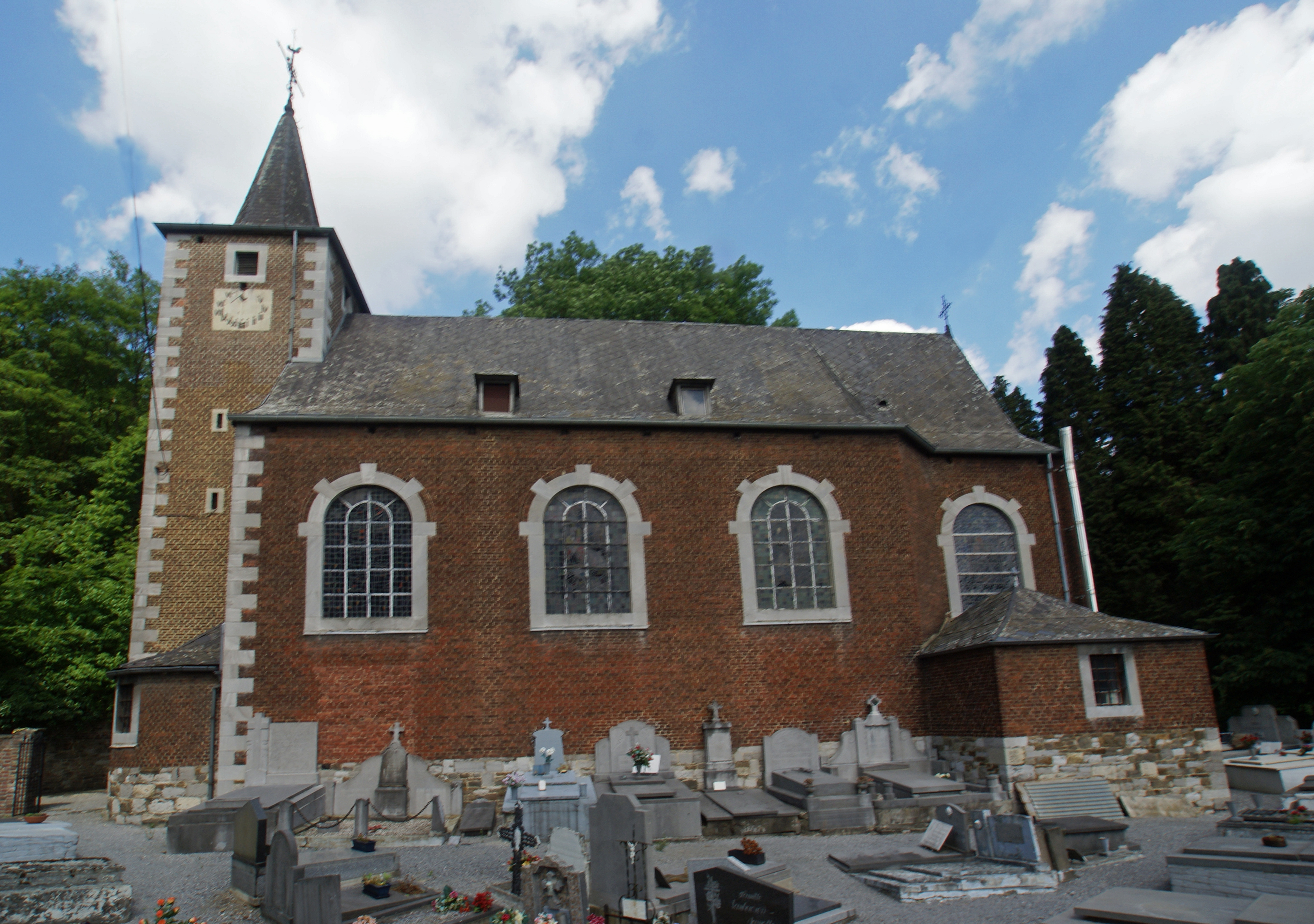 Flémalle (Gleixhe), Belgium: Lambert of Maastricht Church